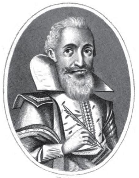 Scan of portrait facsimile from The complete works of John Davies of Hereford (15 -1618): For the first time collected and edited: with memorial introduction, notes and illustrations, glossarial index, and portrait and facsimile, &c, Volume 1 (1878)